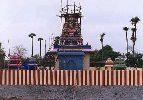 Lakshmi Kuberer Temple is located at Ratnamangalam, Vandalur. Lakshmi Kubera is the main deity in this temple. The temple is built on 4,000 sq ft and has a five-tier gopuram.